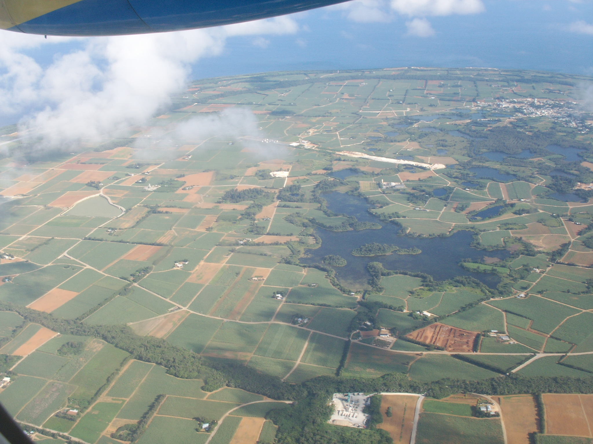 A bird's eye vie of Minamidaito Village in Okinawa Prefecture, Japan